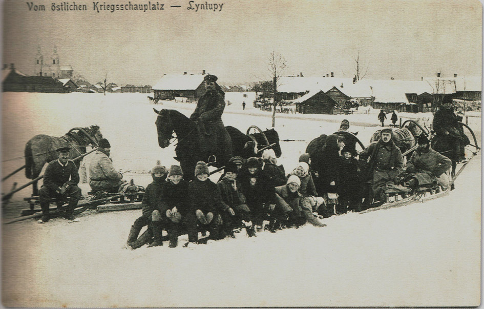 Lyntupy in Pastavy district